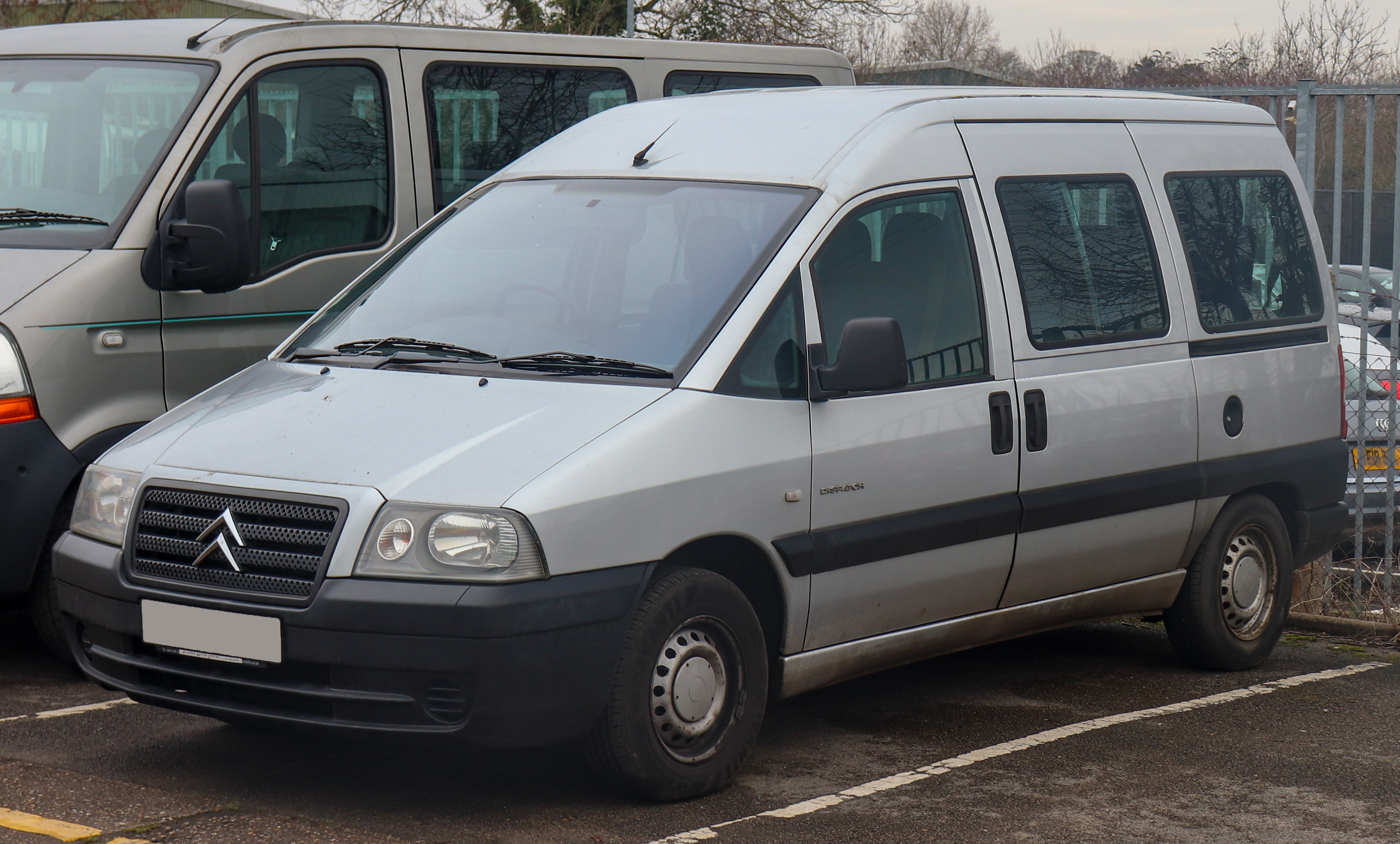 2007 Citroen Dispatch Diesel 1.9 Taken in Stratford-upon-Avon